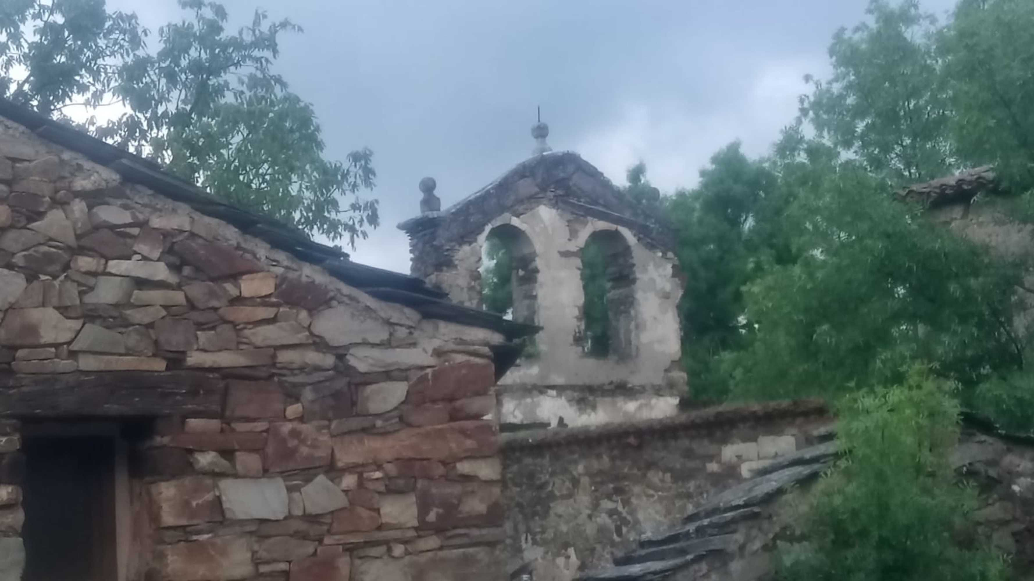 Umbralejo (Guadalajara), Spain. Nativity of Our Lady old parish church. Detail of the bell gable.